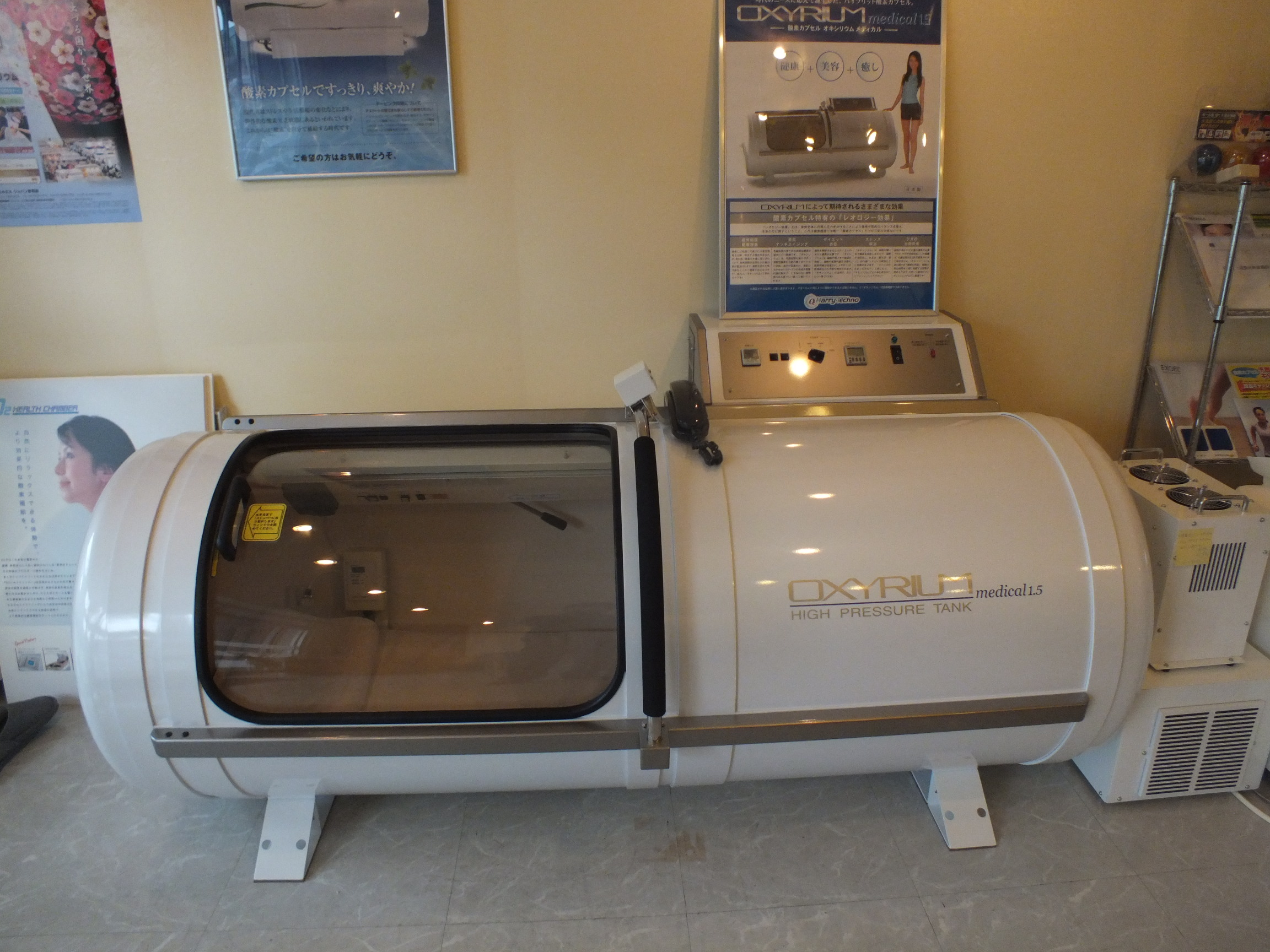 High Pressure Tank OXYRIUM medical 1.5 オキシリウム メディカル1.5 酸素カプセル「オキシリウムメディカル1.5」 鍼灸接骨院・医療機関・プロ向け 神戸メディケア Kobe Medi-care Co.Ltd